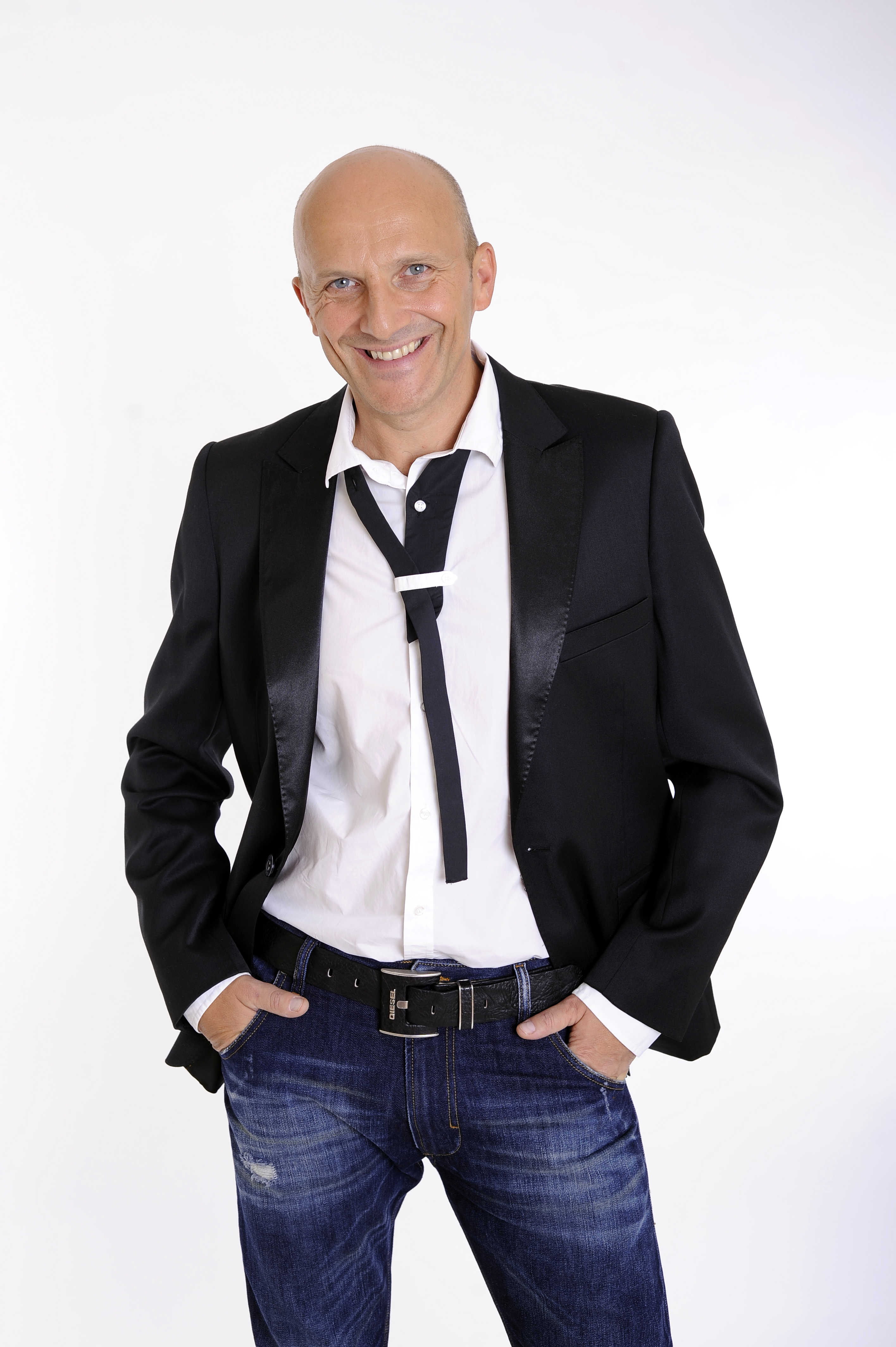 Robert Rozmus